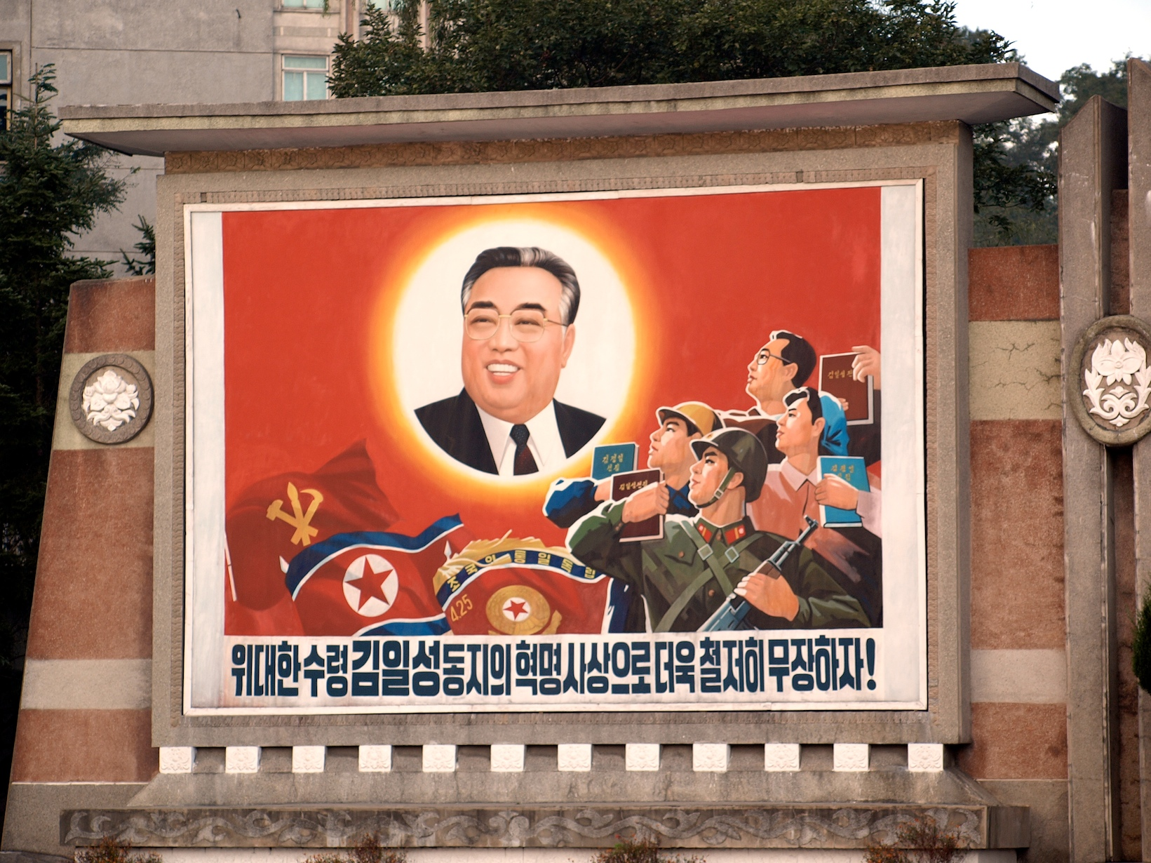 Mural outside Songdowon Hotel, Wonsan, North Korea